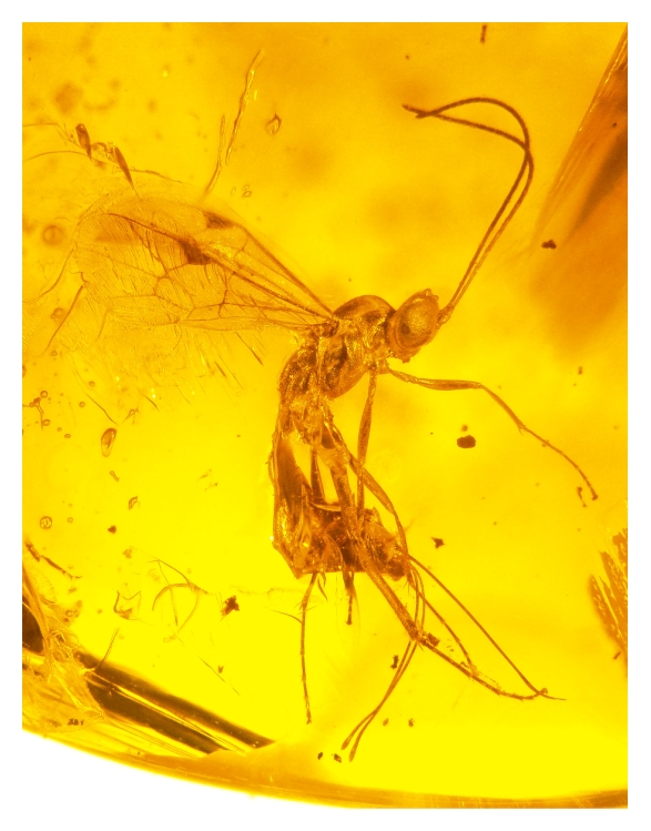 A female ichneumonid wasp (Hymenoptera: Ichneumonidae) in Dominican amber